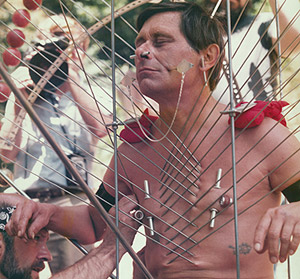 Picture of Fakir Musafar in Vel Kavadi in California, 1982. Used with permission from Fakir, aka Roland Loomis. His release is on File at Wikipedia.